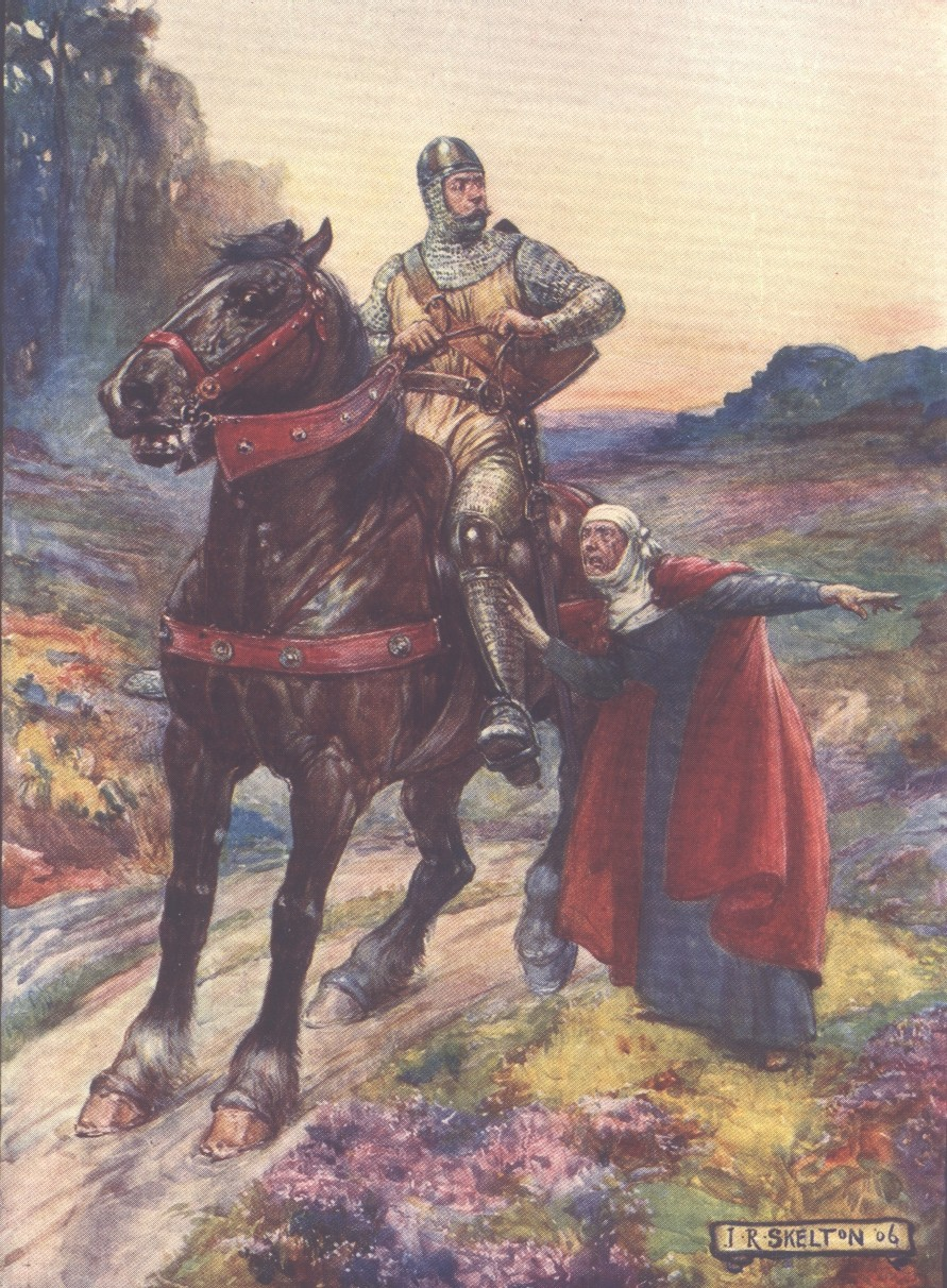 A depiction of Wallace from H E Marshall's 'Scotland's Story', published in 1906. The scene shows a woman informing Wallace that the Scottish nobles have been massacred in a trap set at the Barns of Ayr. The original caption is, "Hold you, hold you, Brave Wallace! the English have hanged all your best men like dogs."